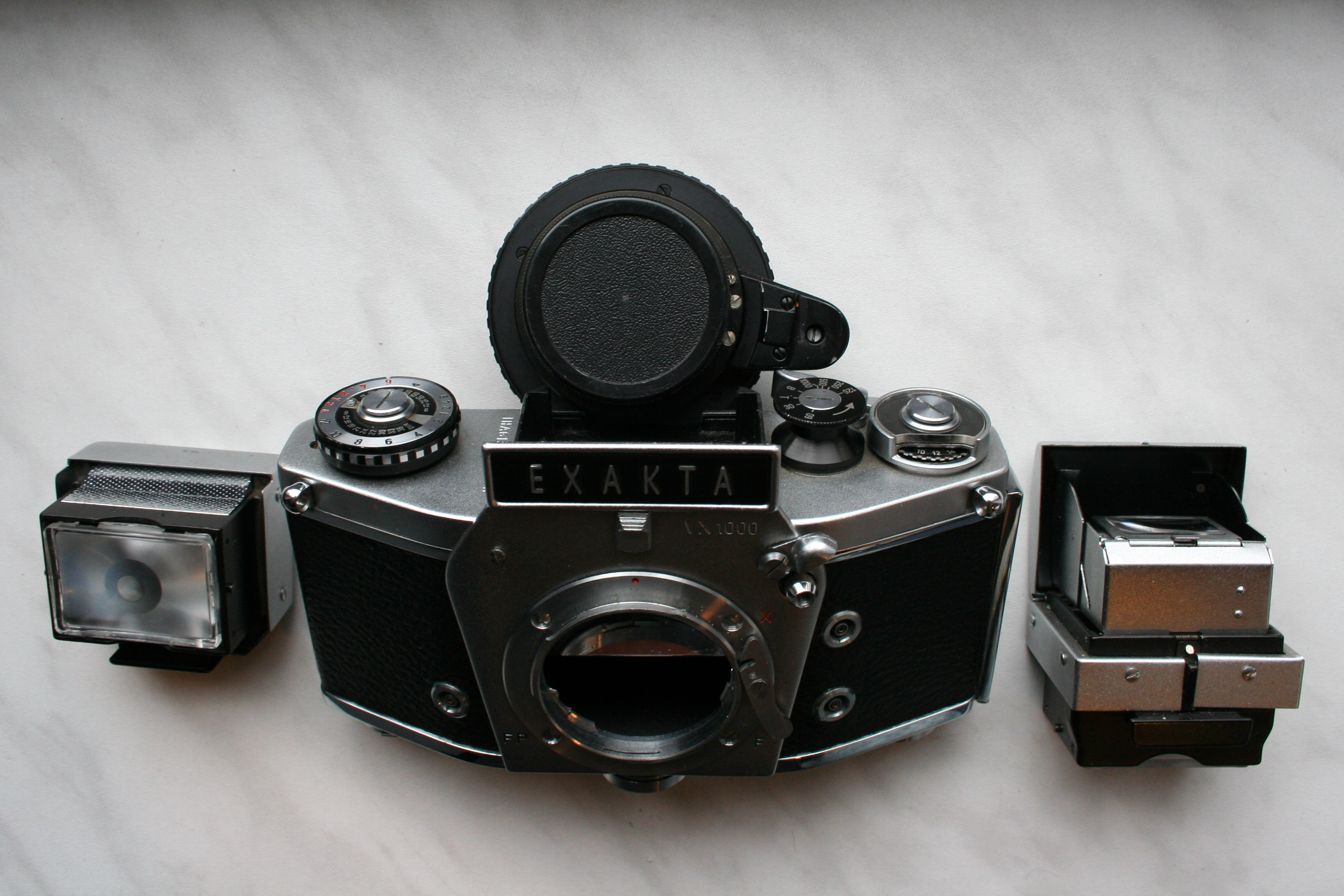 Exakta VX 1000 single-lens reflex camera with two pentaprisms.